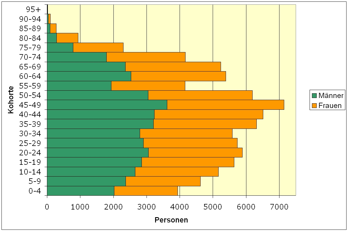 Chart of Population by Age (opština Sremska Mitrovica)